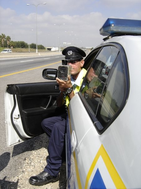 Israeli Traffic policeman uses a laser gun